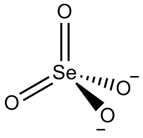 structure of selenate ion created with ChemDraw